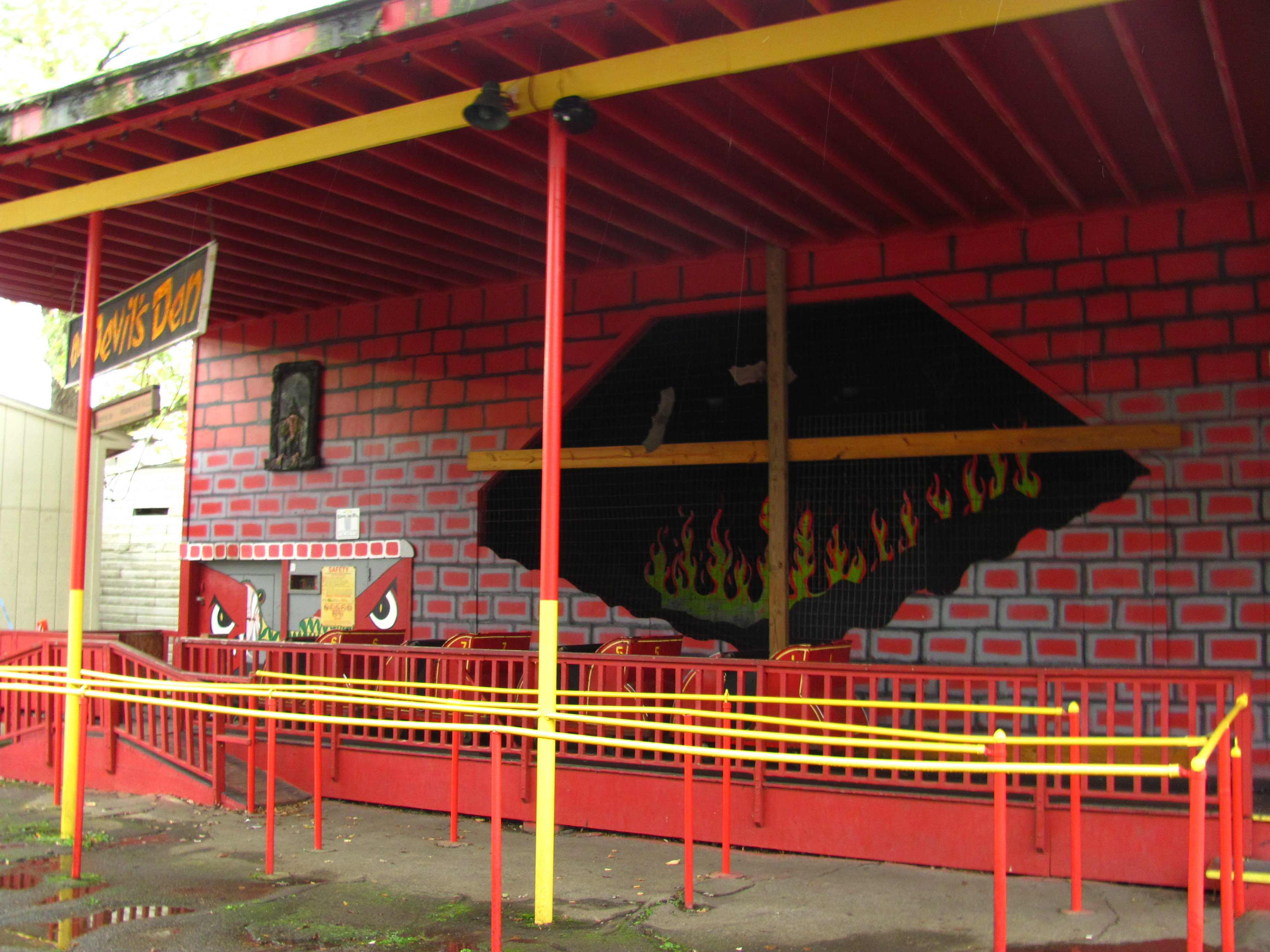 The Devil's Den